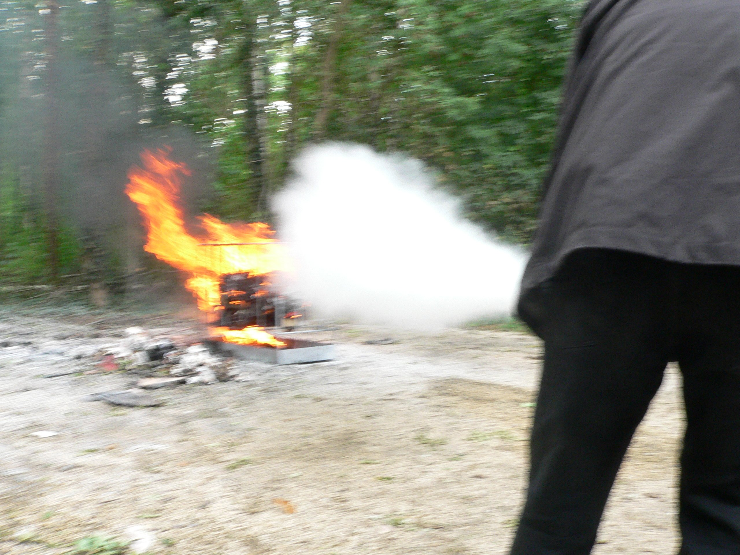 Extinguishing of a petrol fire